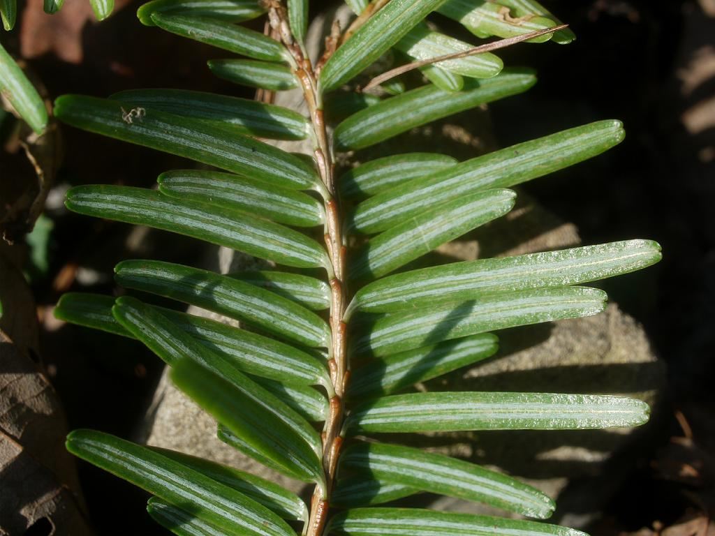 Tsuga sieboldii(Pinaceae) Japanese name:tuga：ツガ Date;2009,11.15;Tanabe City, Wakayama prefecture, Japan Author;Keisotyo